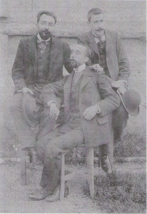 Lluís Via, Oriol Martí i Emili Tintorer